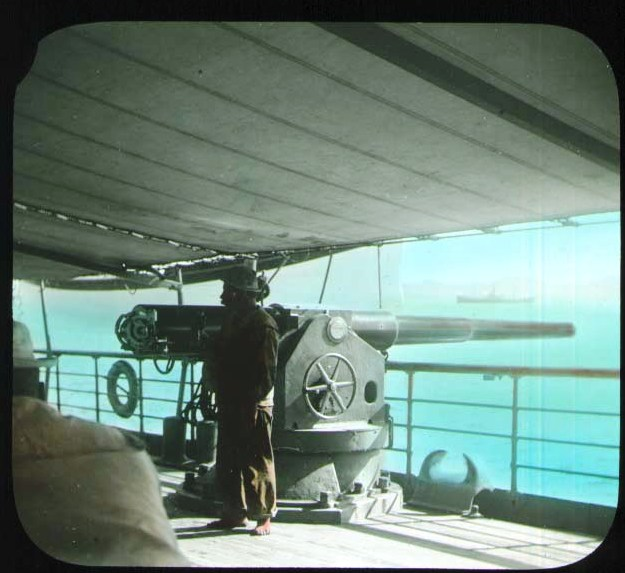 Rapid fire guns on battleship, man at gun turret [verify]. 1899. Name of Expedition: Allison V. Armour Expedition Participants: Charles F. Millspaugh, Edward P. Allen, Edward S. Isham Jr.,Jordan L. Mott Jr. Expedition Start Date: December 21, 1898 Expedition End Date: March 11, 1899 Purpose and Aims: Plant collecting and photography for Botany in the Bermuda, Bahamas, Haiti, Jamaica, Puerto Rico, Cuba, Yucatan. Vessel Name: Utowana (Yacht, Sailboat) Location: Central America, Cuba Original material: Hand Colored Lantern Slide Digital Identifier: CSB4253c Learn more about The Field Museum's